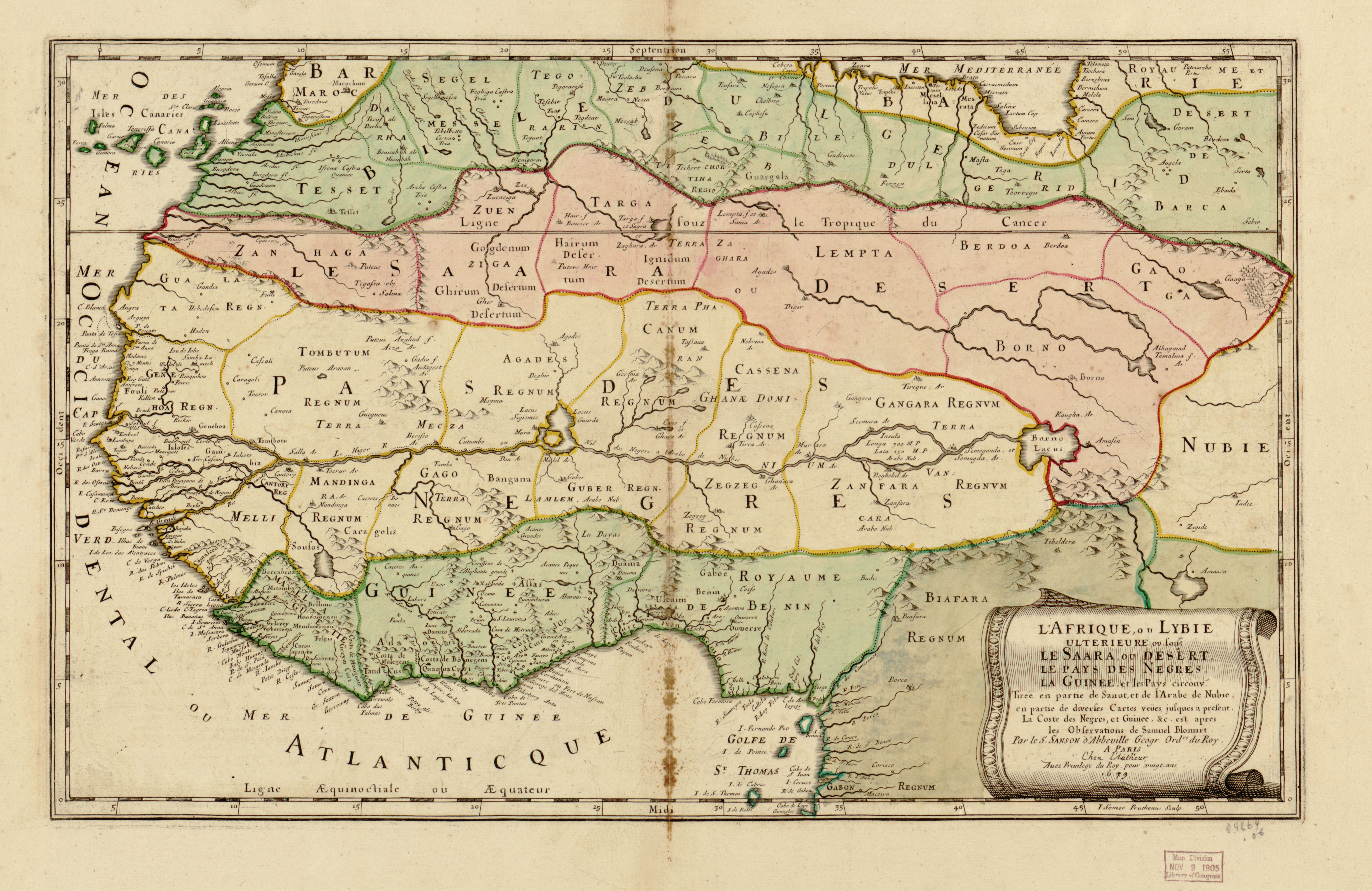 Map of Western Africa by Nicolas Sanson